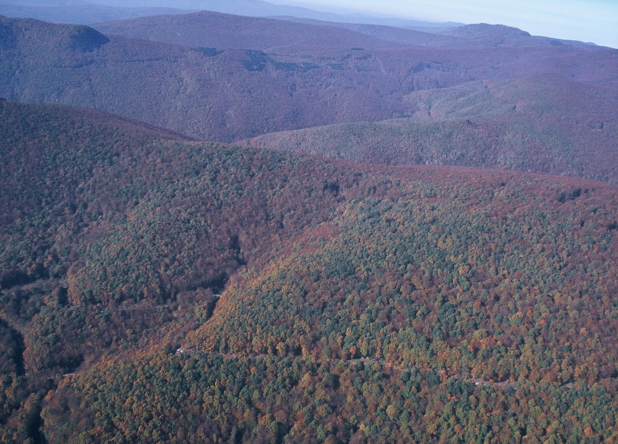 Papuk Nature Park from air